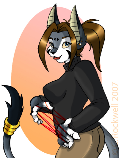 an Ervajac (a serval crossed with an Egyptian jackal)